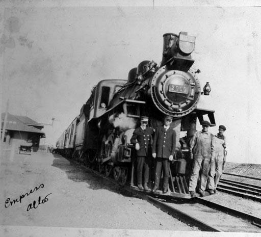 C.P.R. railroad locomotive and employees